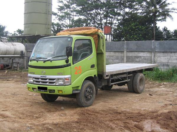 Hino Dutro 125LT with Flat Bed.